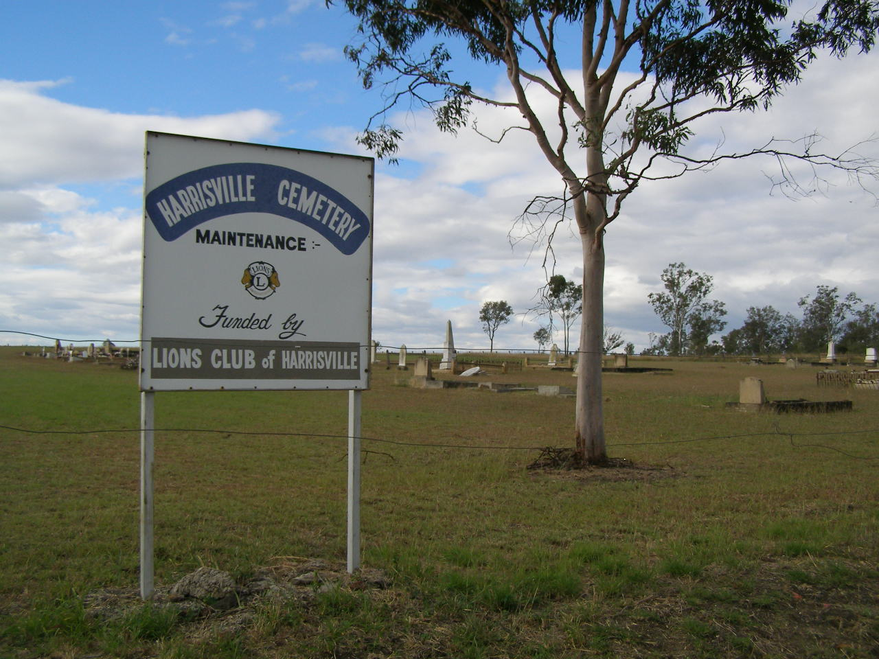 Harrisville cemetery, Scenic Rim Region, 2008